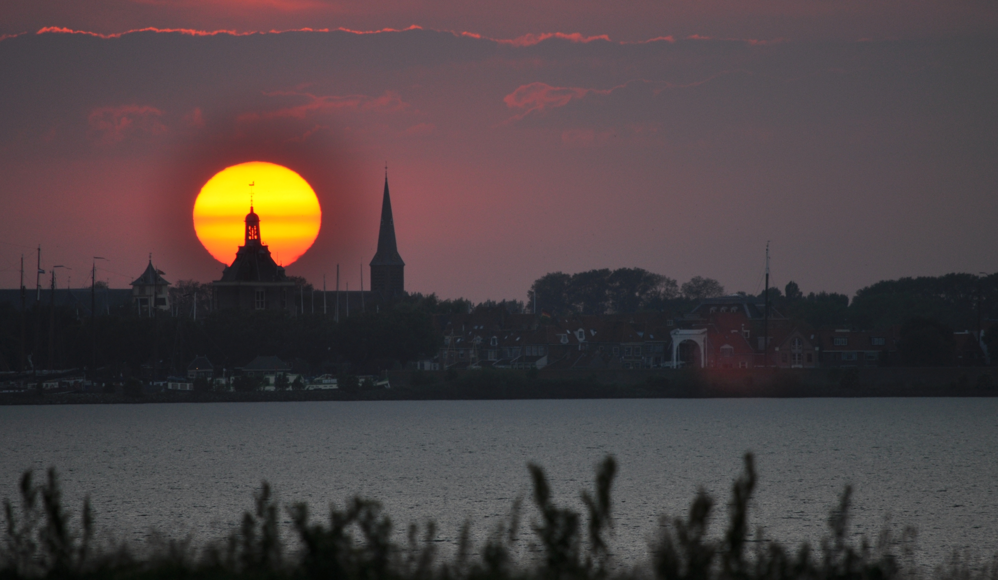 Enkhuizen seen from the dyke to Lelystad